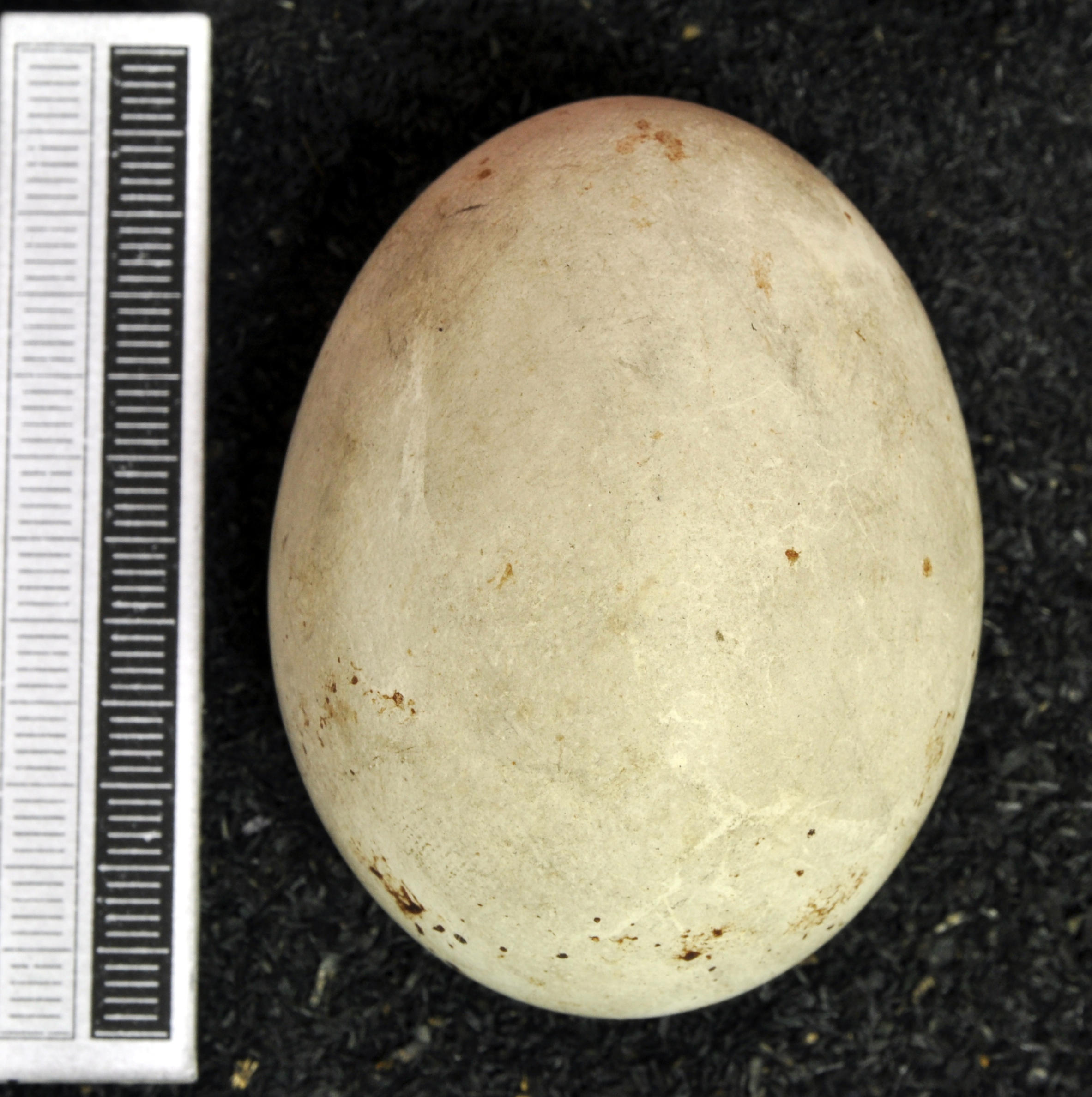 Northern goshawk Accipiter gentilis , egg, Coll. Museum Wiesbaden